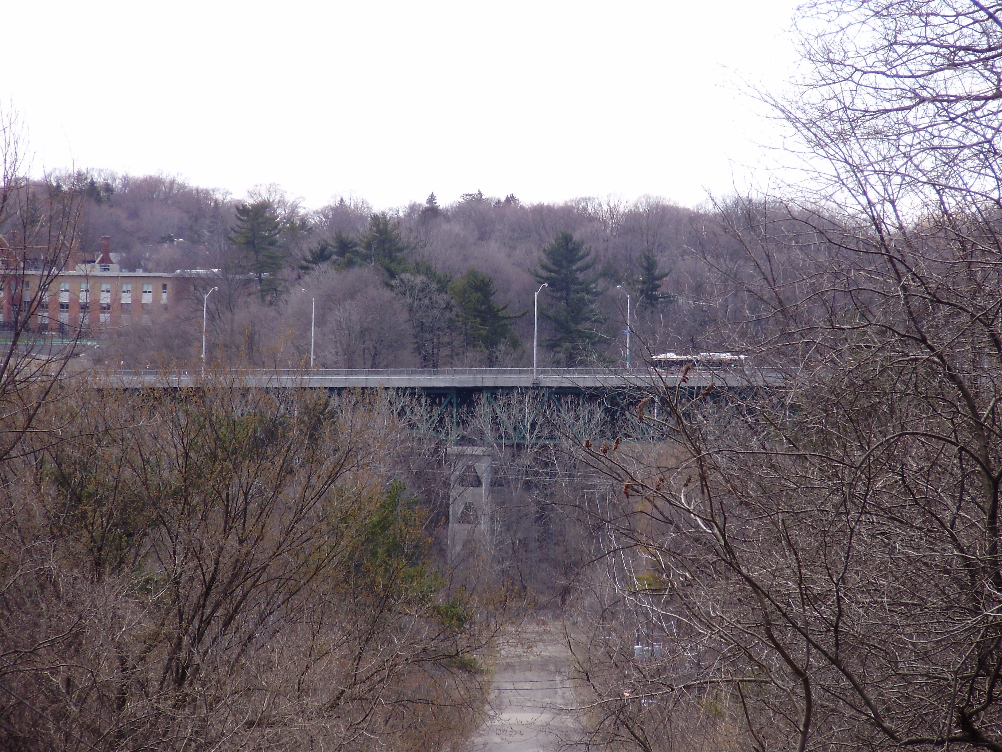 A Toronto Transit Commission bus crosses over the Bayview Bridge, built across the West Don River, in Toronto, Ontario, Canada. Photographed from Lawrence Avenue East in the Bridle Path.